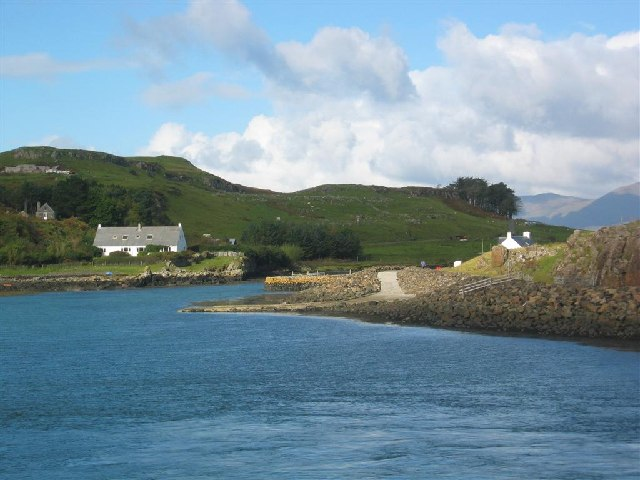 Port Mor, Muck. View from the harbour, taken at 11:43 on 7th October, 2004.